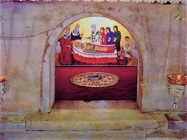 Tombe of Saint Nicolas, Bari, Italy